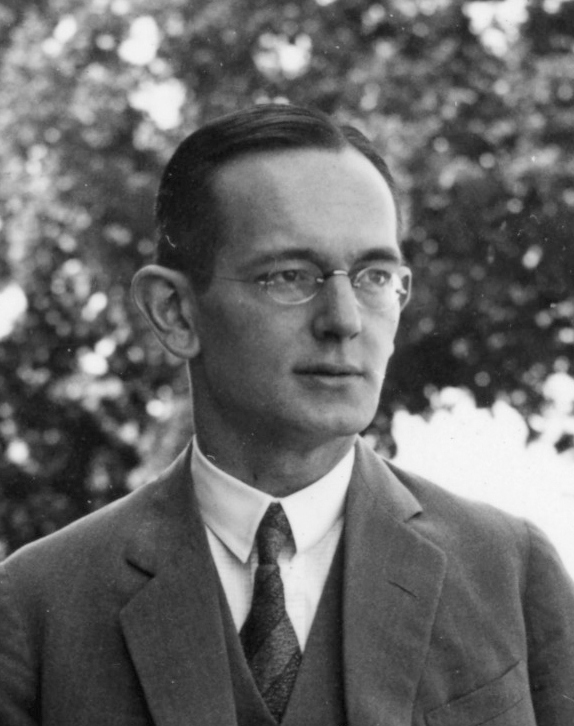 This photo was taken on 4th September in 1930